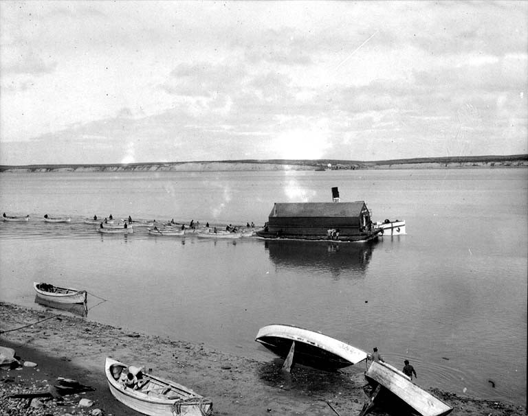 From John Cobb field notebook: The end of the season at A.P.A. cannery, Naknek, Alaska, bringing home the house scows. Aug. 1906 Subjects (LCTGM): Fishing industry--Alaska--Naknek; Fishing boats--Alaska--Naknek Subjects (LCSH): Alaska Packers Association; Salmon canning industry--Alaska--Naknek; Salmon fisheries--Alaska--Naknek; Scows--Alaska--Naknek